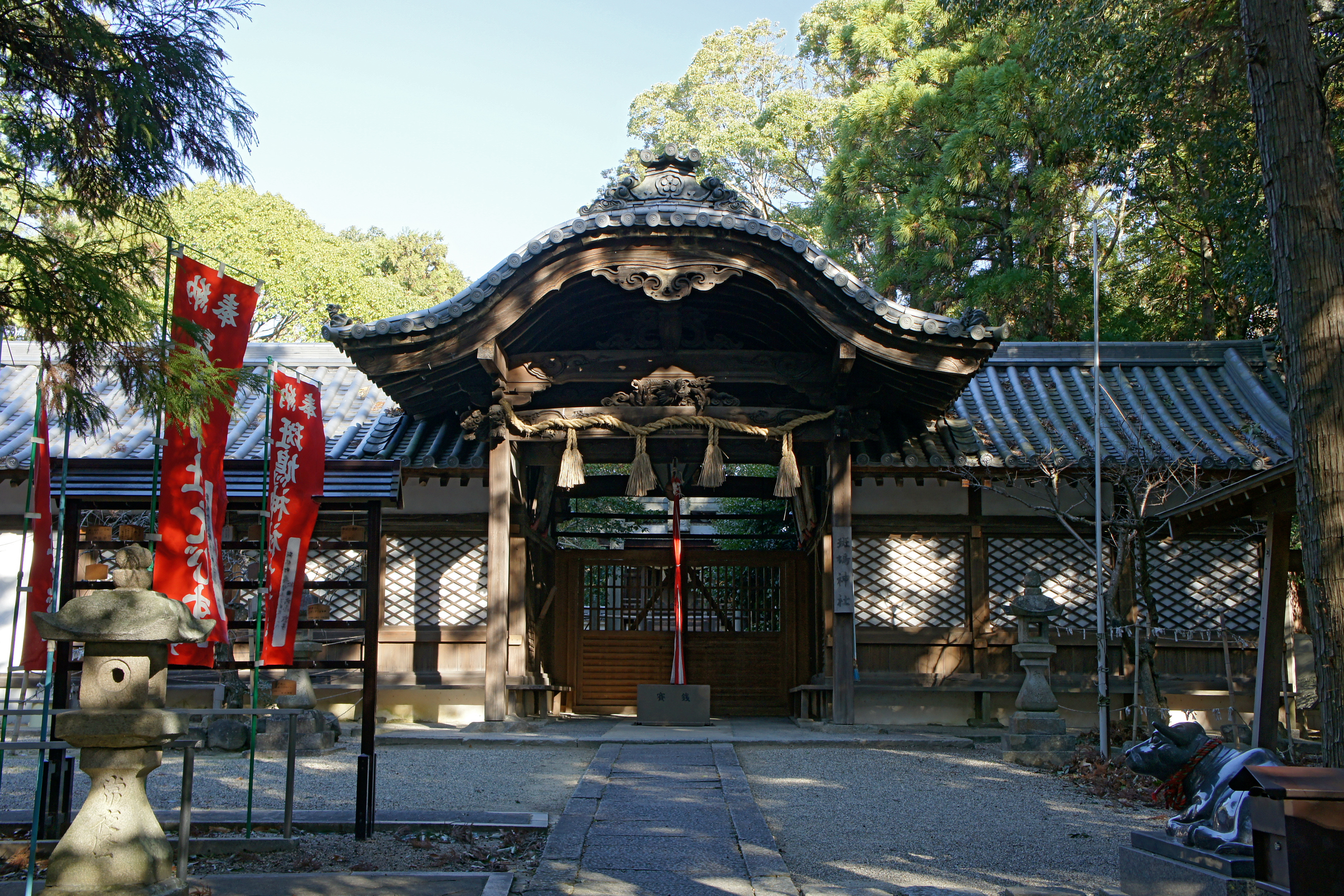 Ikaruga-jinja in Ikaruga, Nara prefecture, Japan.